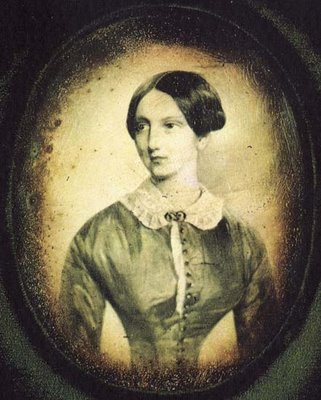 Grand Duchess Maria Nikolaievna. Daguerreotype, 1840